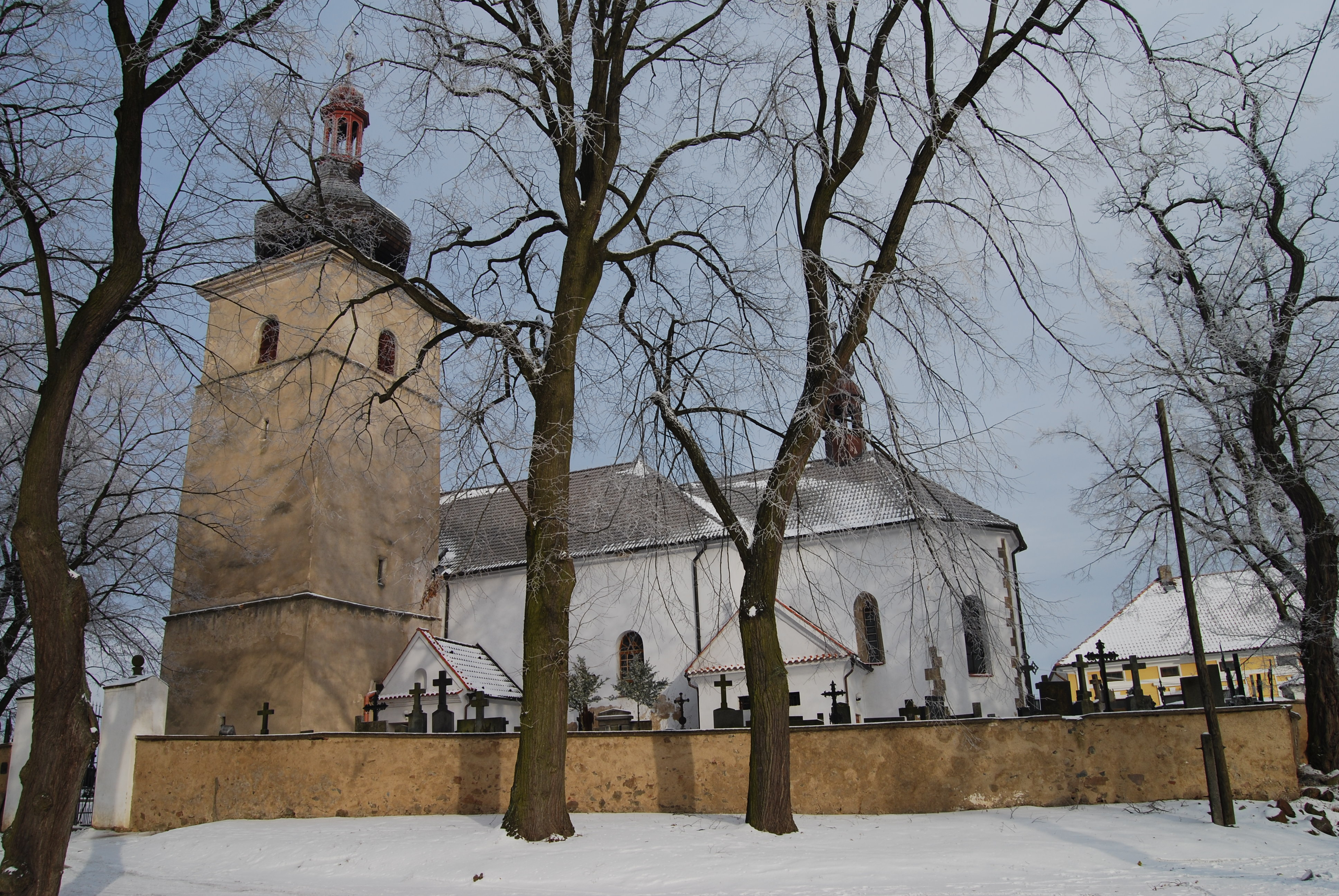 Church of sant Peter. Slivice near Milín, Czech Republic.